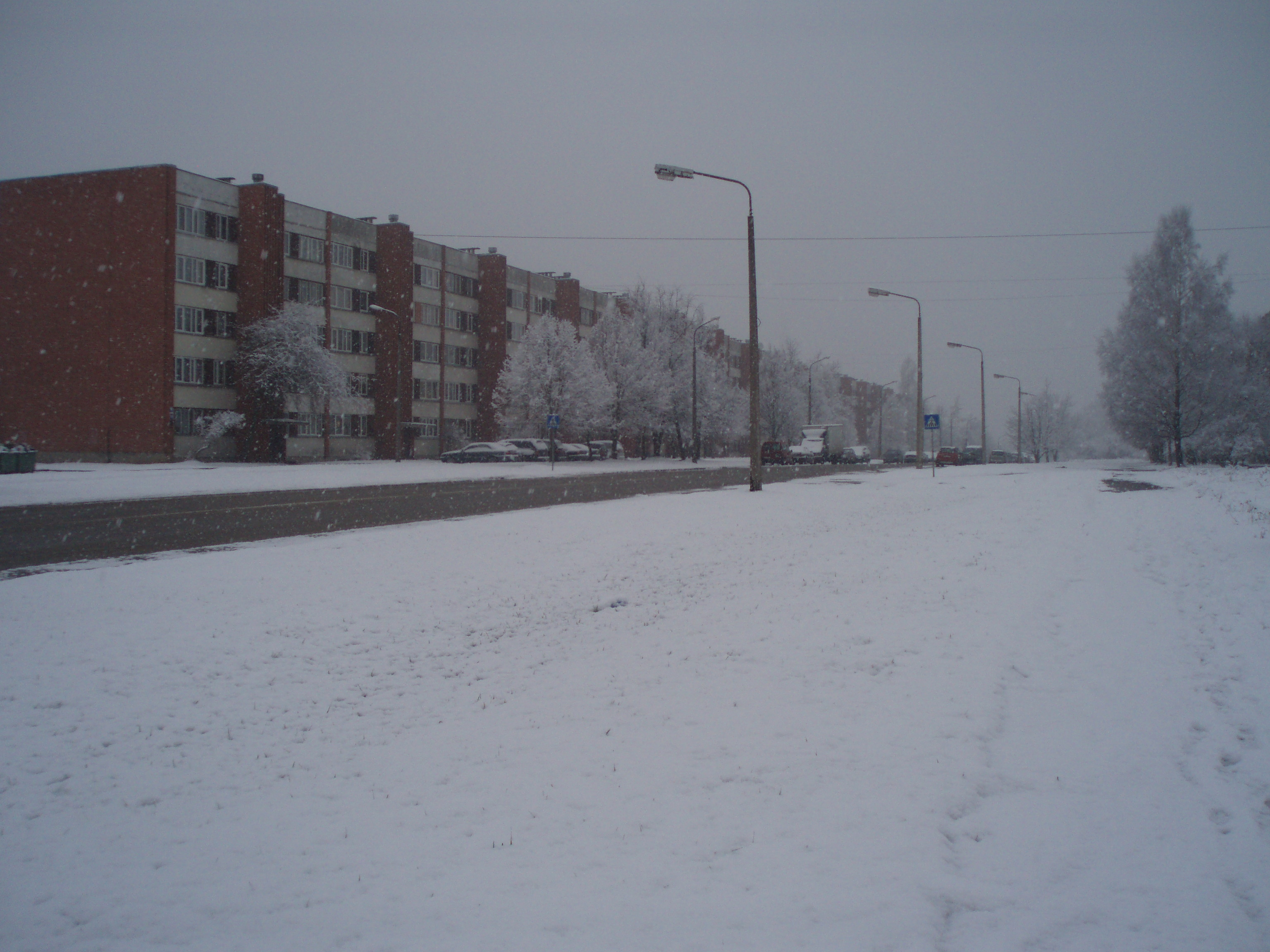 Maskavas Street in Rēzekne, Latvia.